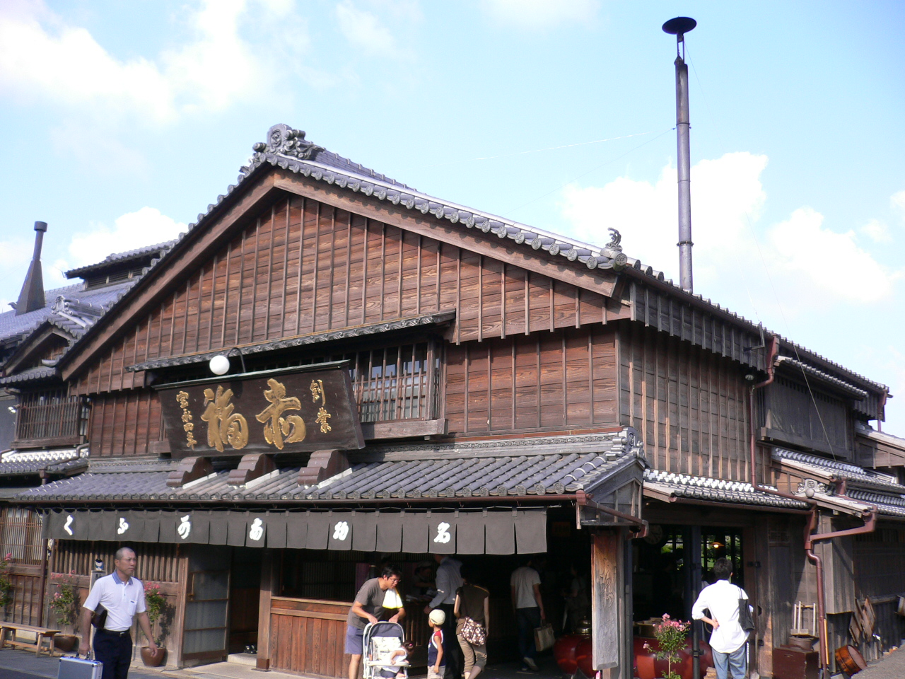 Head store of Akafuku